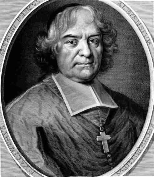 Hyacinthe Serroni par Hyacinthe Rigaud